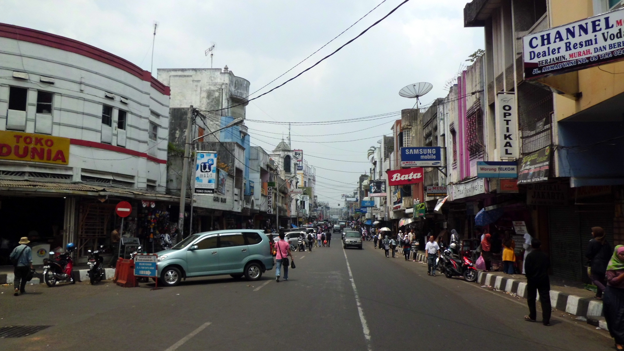 Ahmad Yani Road in Sukabumi, West Java, IndonesiaBahasa Indonesia: Jalan Ahmad Yani di Sukabumi, Jawa Barat, Indonesia